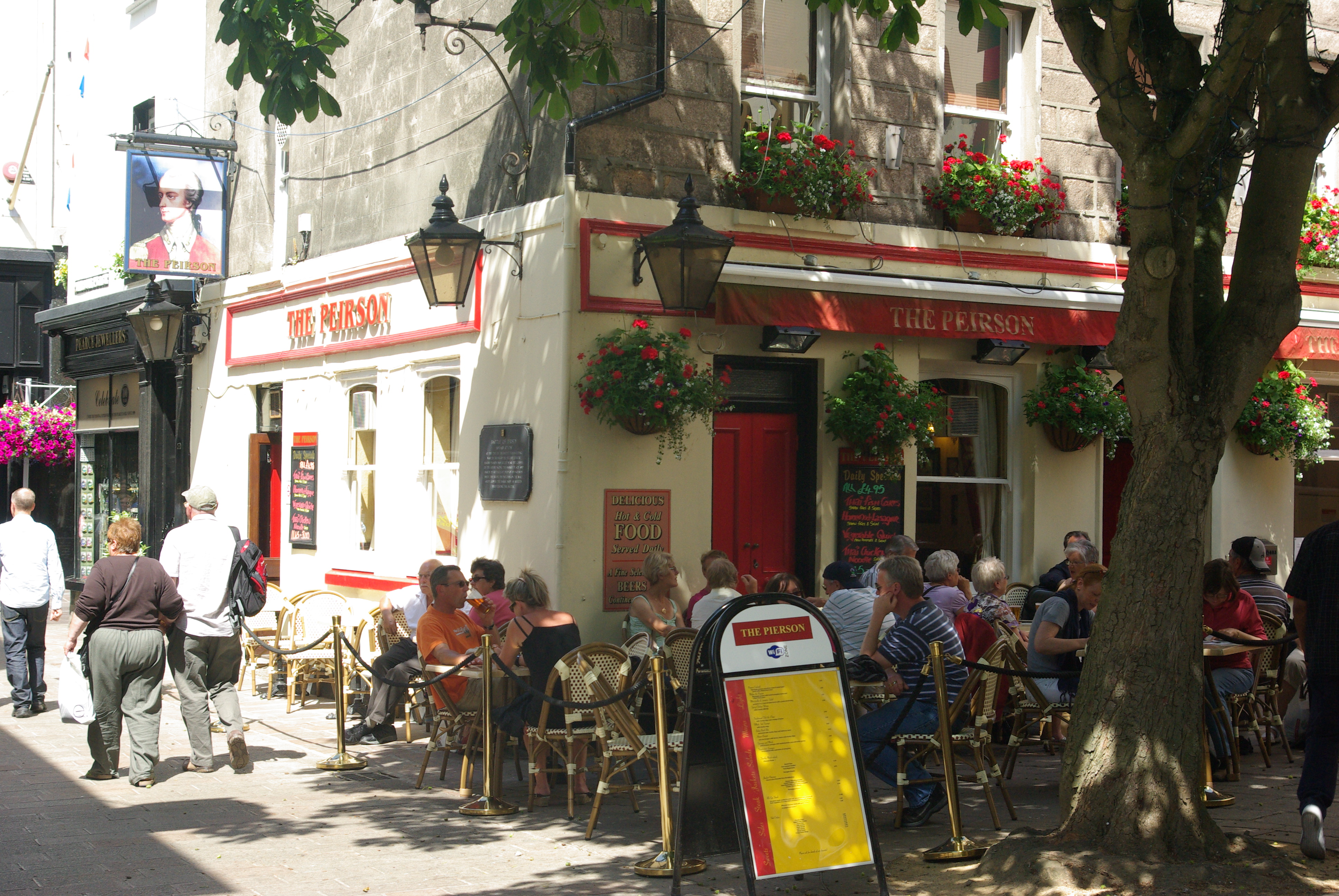 Peirson Hotel, 17 Royal Square, St. Helier, Jersey, JE2 4WA.